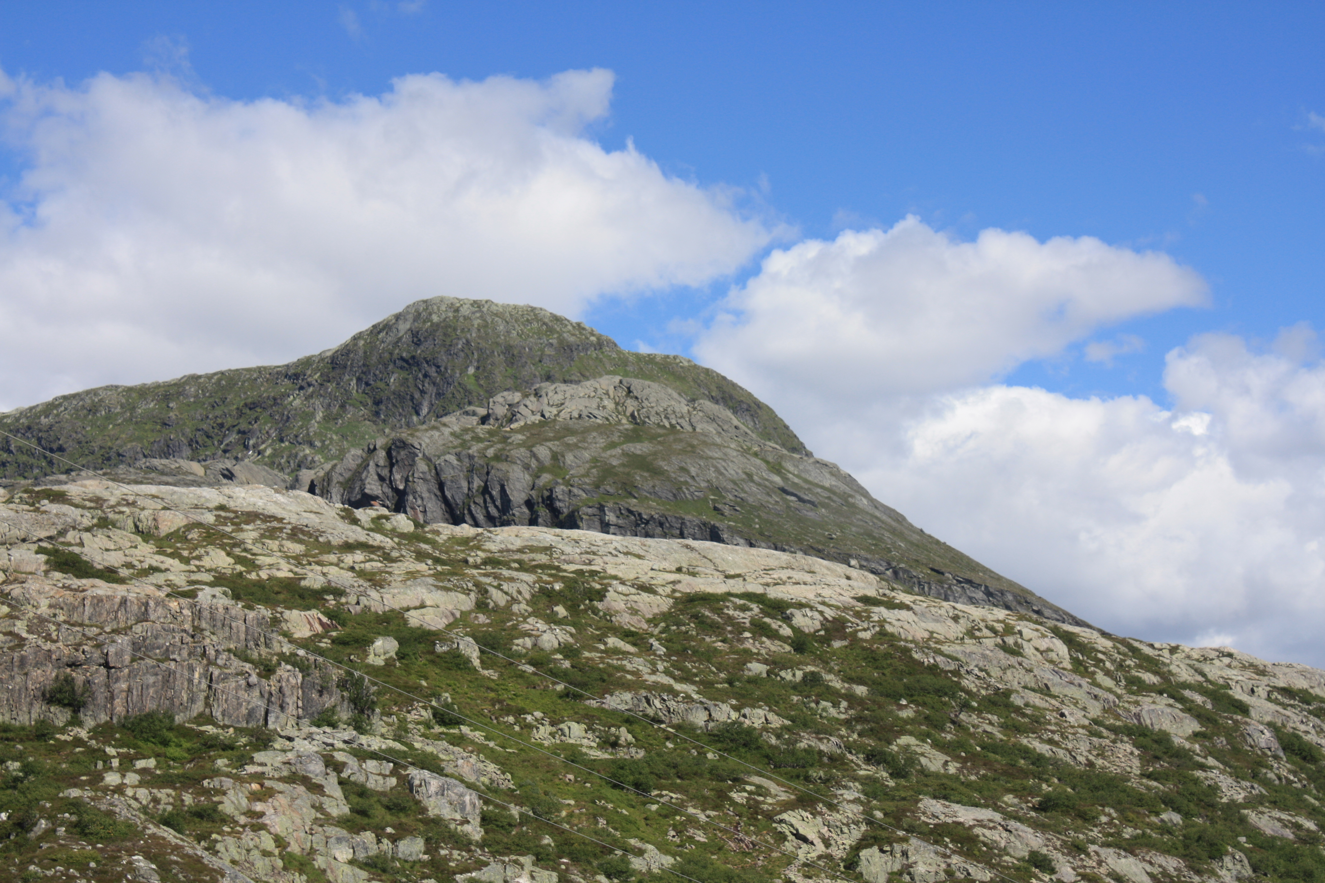 Napen